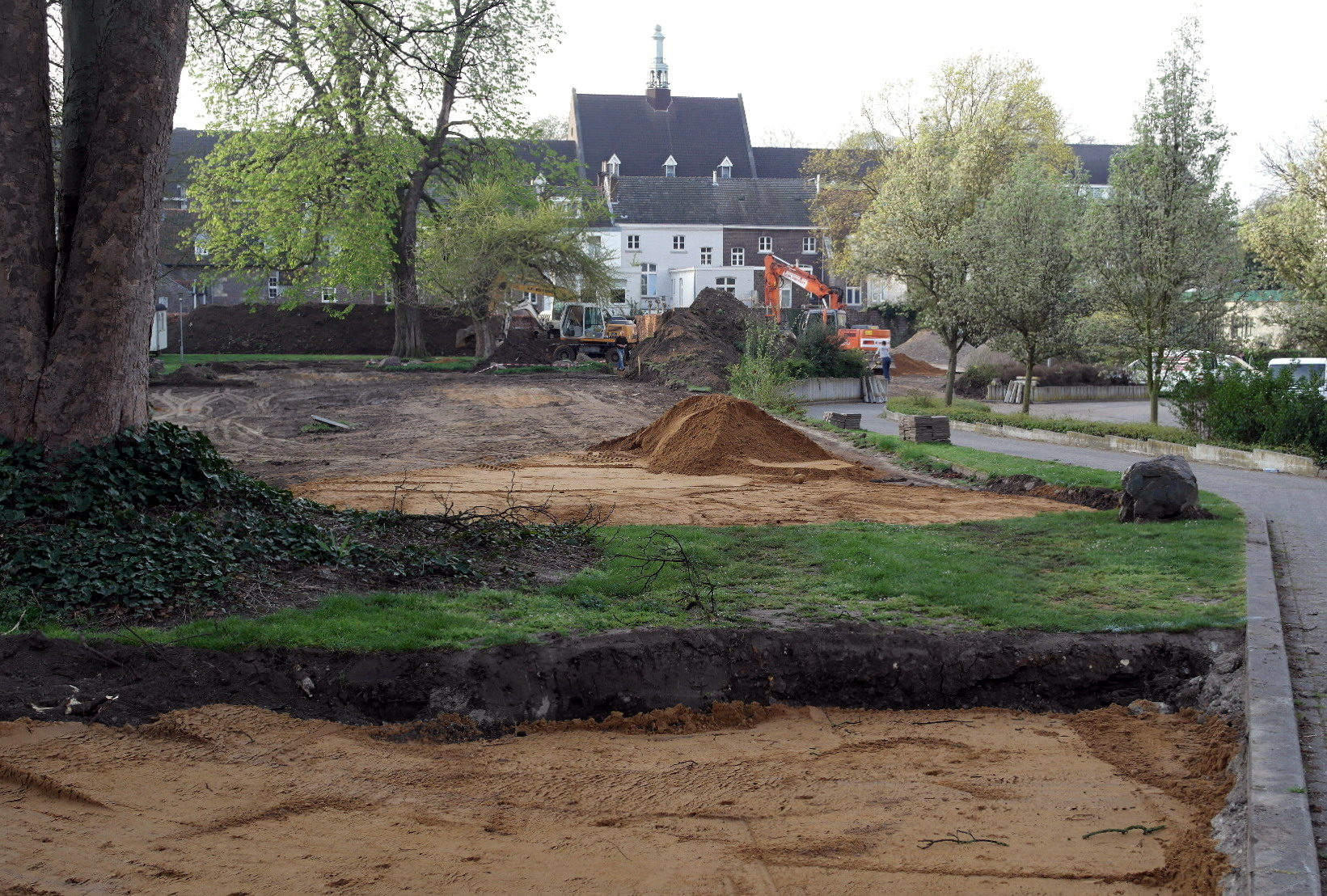 Maastricht, the Netherlands. View of construction work at Klevarie nursing home.